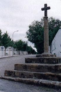 Cruz de Piedra